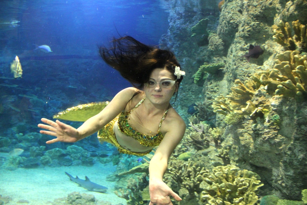 русалка океанариума "Sochi Discovery World Aquarium"